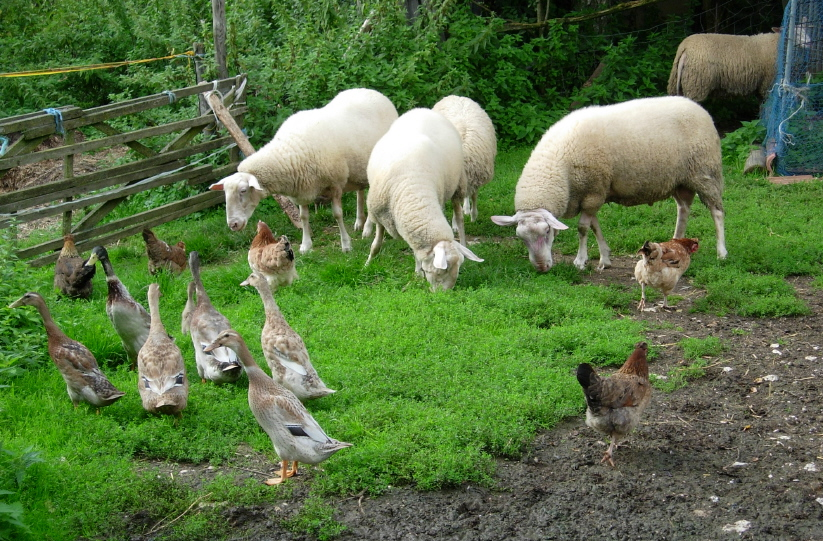 permacultural aspect: co-operating niches at a small scale – photo made on an organic farm on the Swabian Mountains in Germany